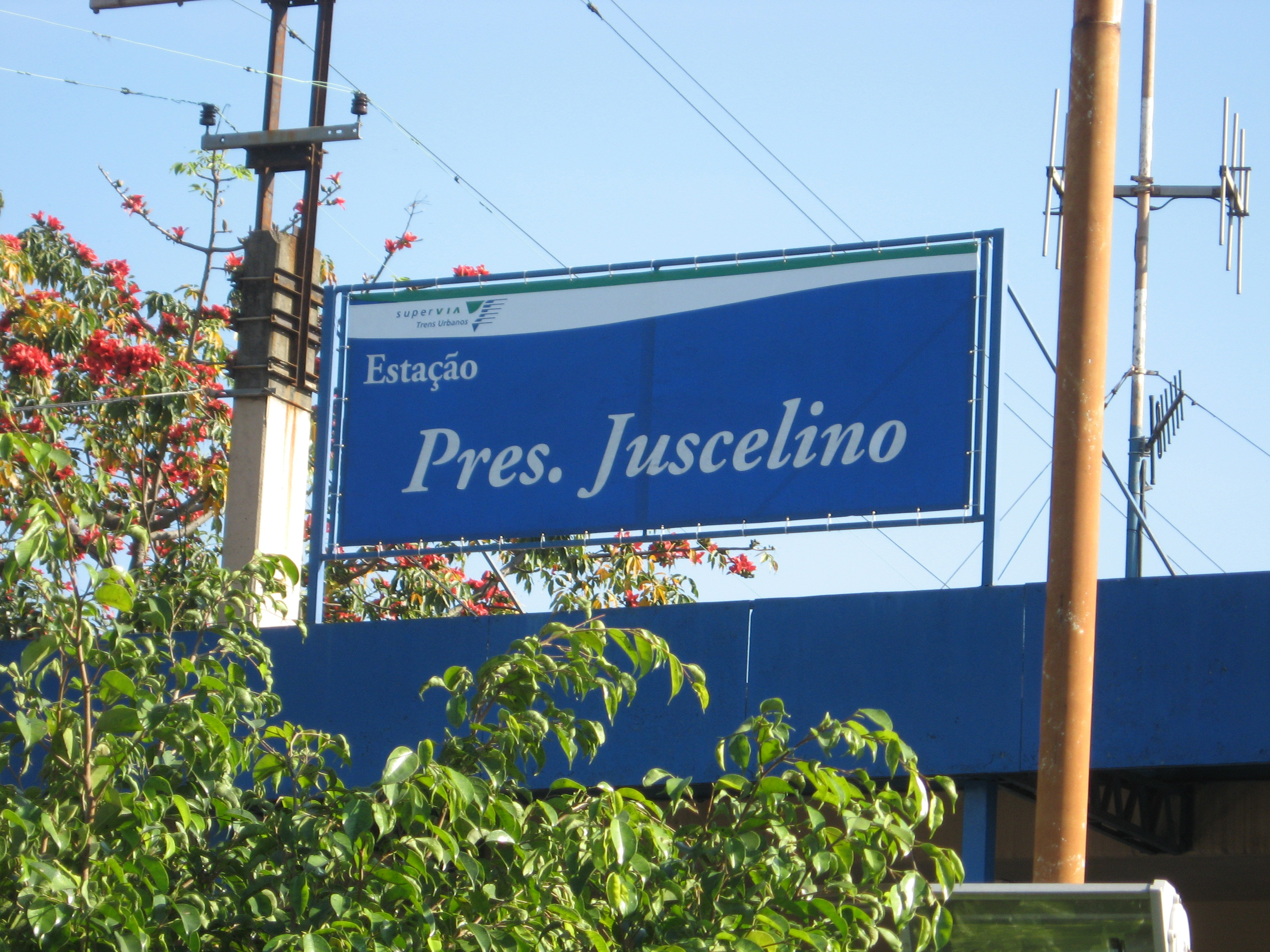 Pres. Juscelino Station, Mesquita, Brazil